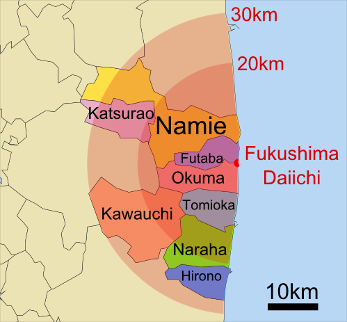 Sketch map showing the relative locations of the 8 Futaba District municipalities with regards to the Fukushima-Daiichi evacuation areas